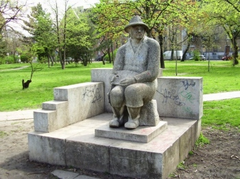 Statue of Nagy Balogh János